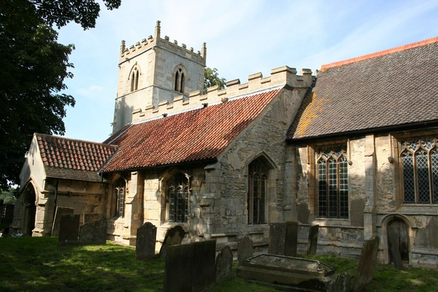 St.Bartholomew's church. Hidden by trees and away from the current village of Langford, St.Bartholomew's church has Early English and Perpendicular gothic features. Open for the Nottinghamshire Historic Churches Trust sponsored bike ride, 9th September 2006.